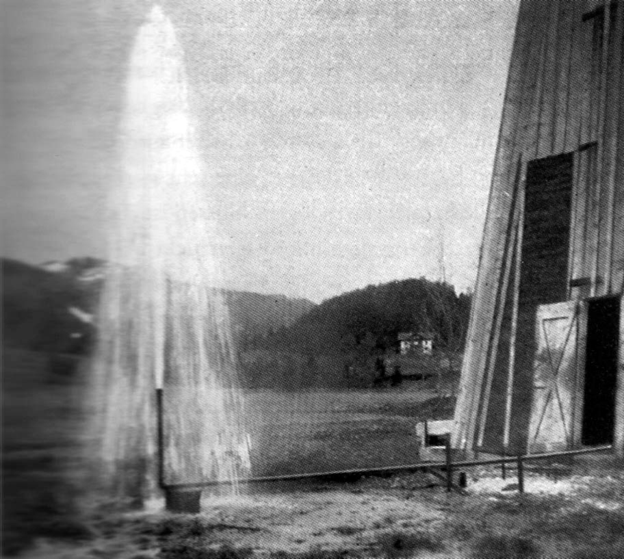 Iodine-sulfur hot spring in Bad Wiessee at derrick no.3, ca.1909